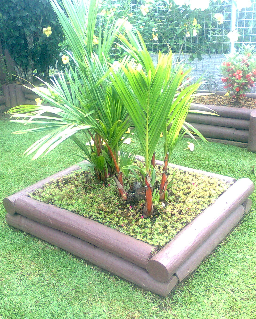 Ornamental Cyrtostachys renda or Red Sealing Wax Palm in a garden in Suva, Fiji.